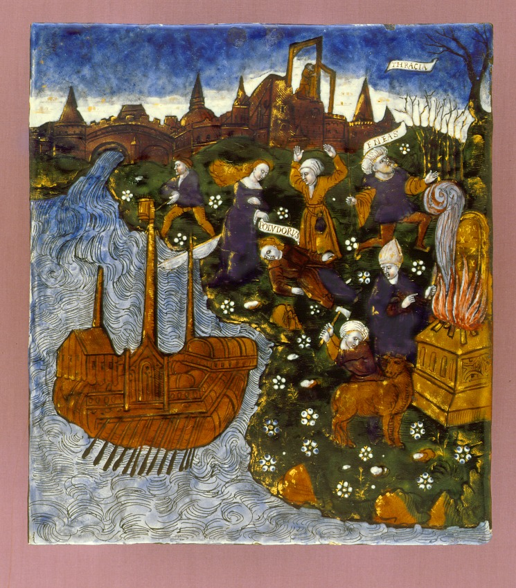 France, Limoges, circa 1530 Furnishings; Accessories Polychrome enamel, gold on copper with silver foil William Randolph Hearst Collection (51.13.1) Decorative Arts and Design Currently on public view: Ahmanson Building, floor 3